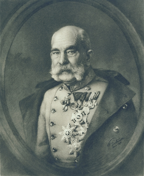 Emperor Franz Joseph I of Austria, contemporary etching.